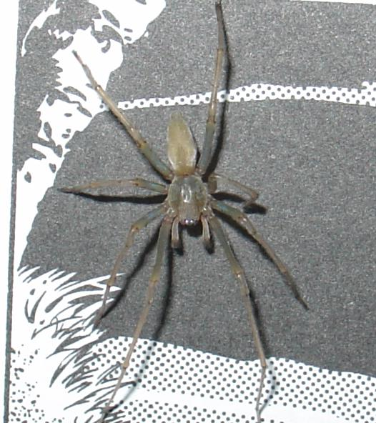 Yellow sac spider - Cheiracanthium inclusum